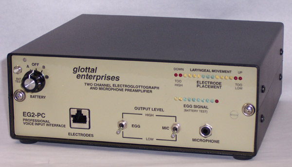 Photo of an Electroglottograph